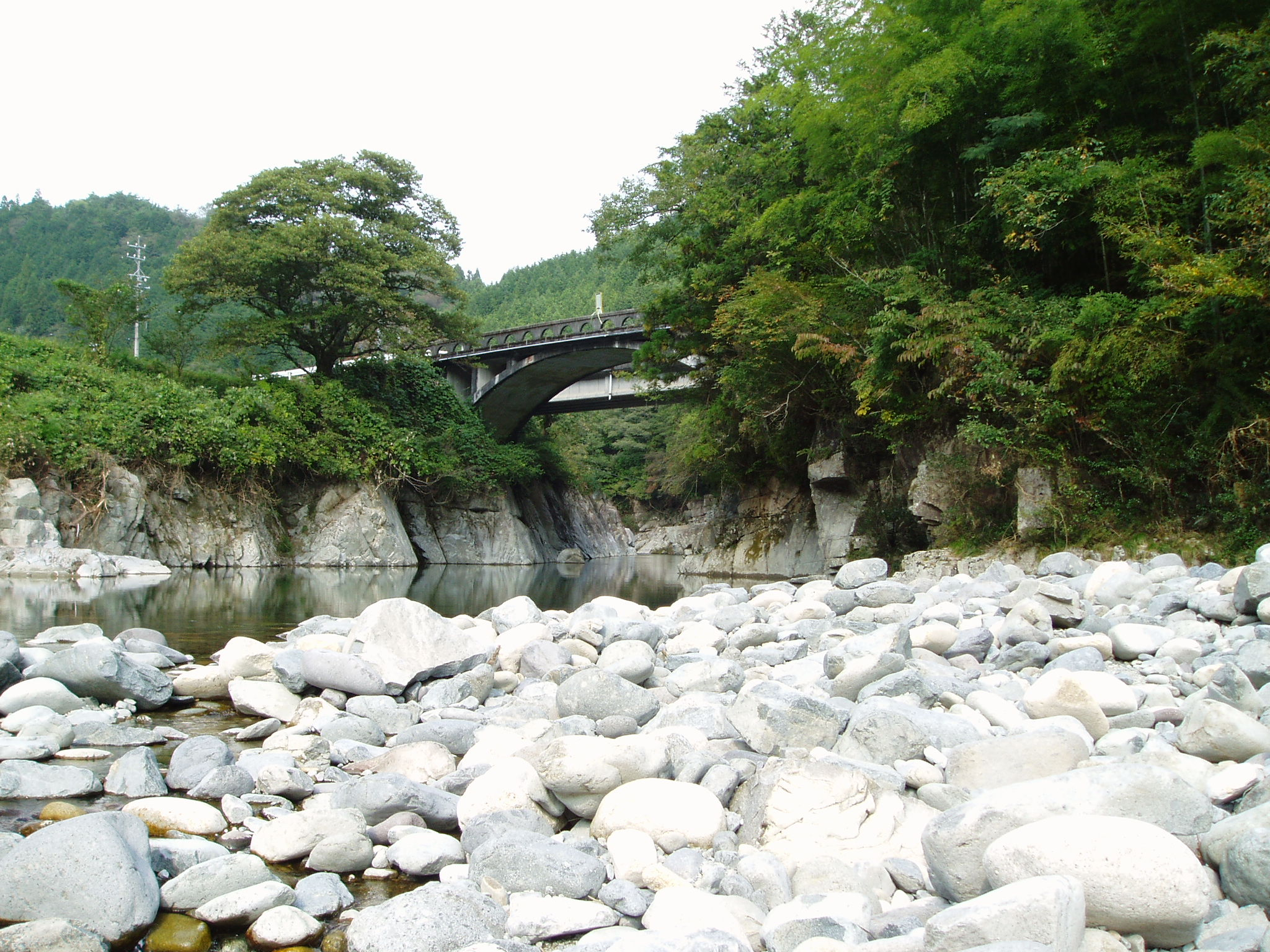 The Tsukechi River in Nakatsugawa-City, Gifu-Prefecture. （Marinesnow5 (talk)'s file） Date:2011-10-10. Author:Marinesnow5 (talk). location:Tase, Nakatsugawa-City, Gifu-Prefecture, Japan.